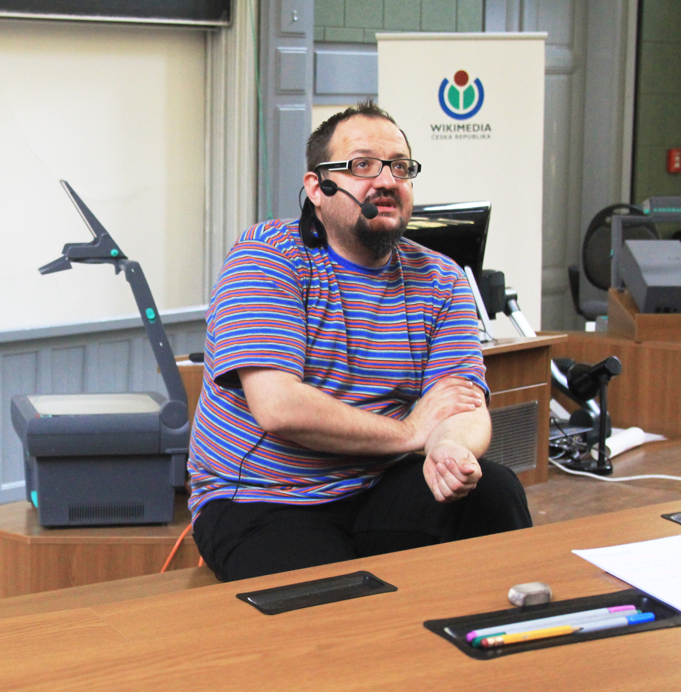 Image of Josef Šlerka from meeteing Wikiconference Prague 2013 arranged in building of Faculty of Natural Sciences of Charles University, in Albertov, Prague, Czech Republic